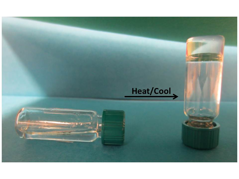 Gel Formation